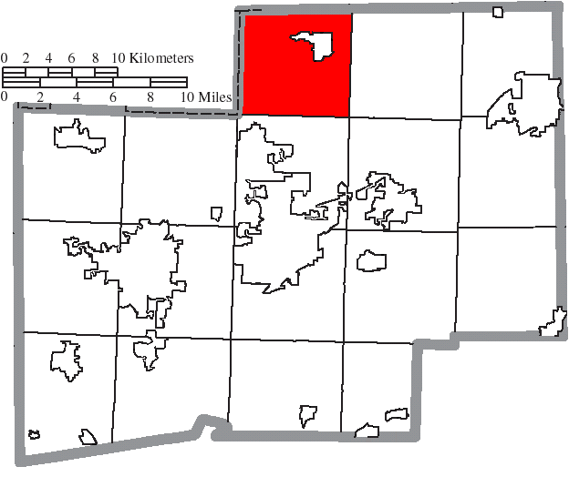 Map of the municipal and township boundaries of Stark County, Ohio, United States, as of the 2000 census, with the location of Lake Township highlighted. Township borders are shown only in unincorporated areas in order to differentiate incorporated and unincorporated areas more clearly.